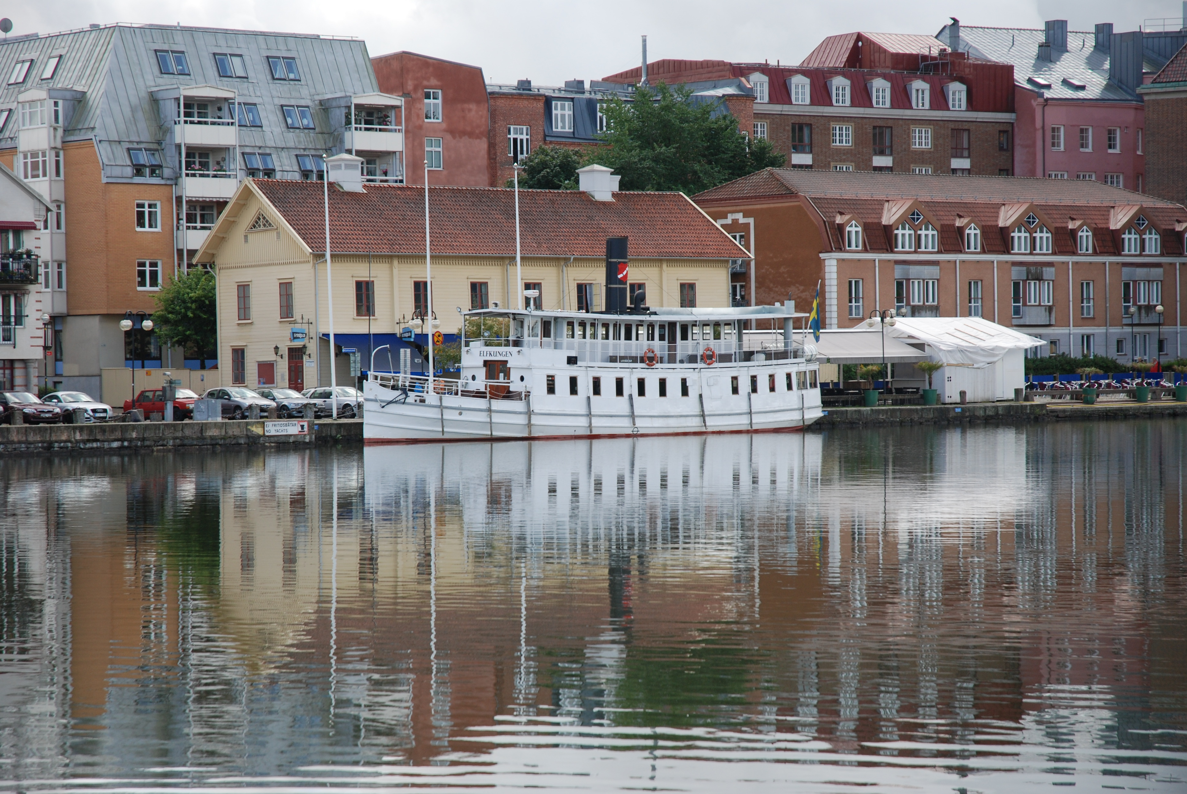 M/S Elfkungen in Trollhättan, Sweden This is an image of the protected Swedish ship M/S Elfkungen, with call sign SGLO .